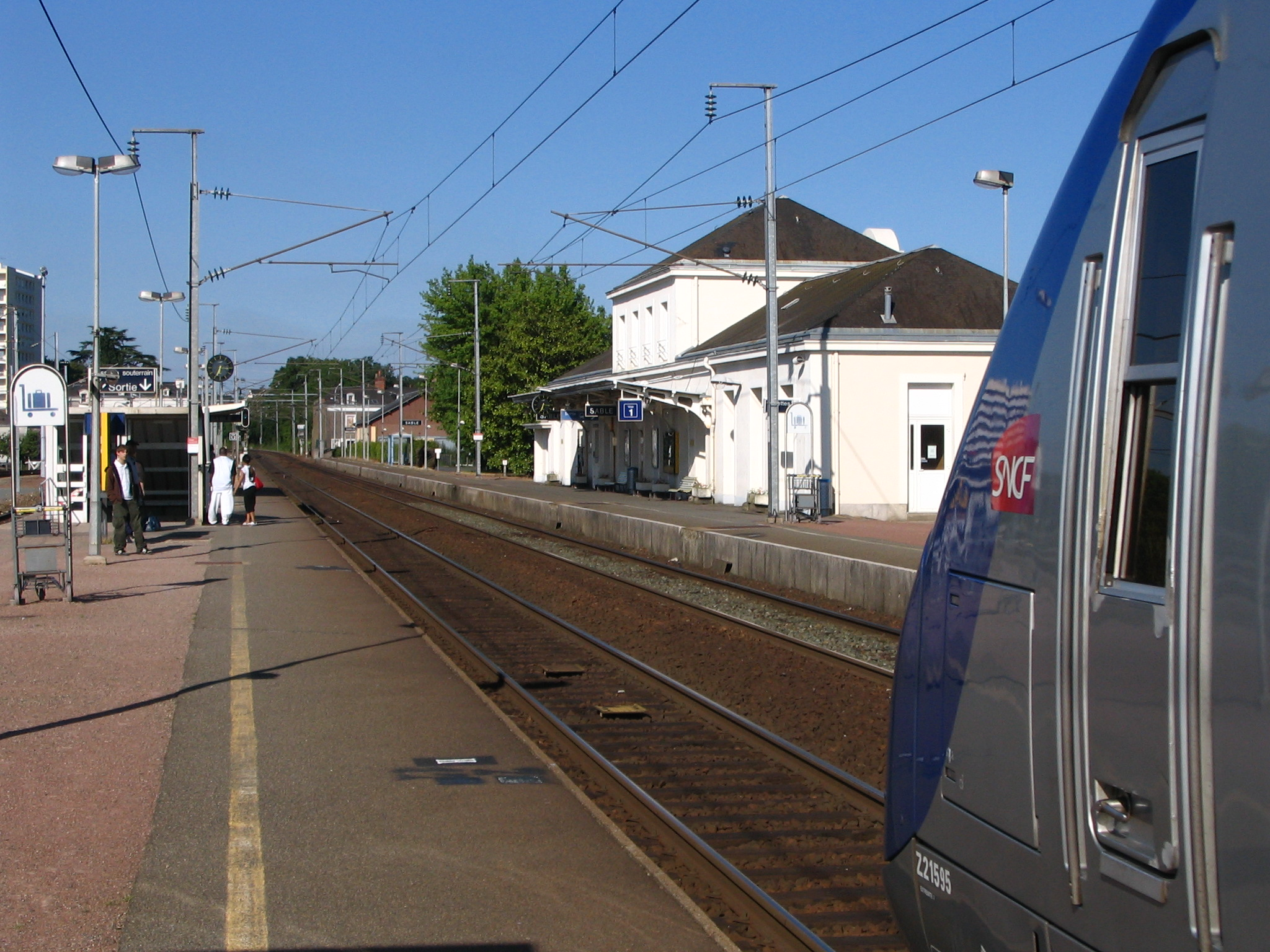 The train station of Sablé-sur-Sarthe, Sarthe, France.